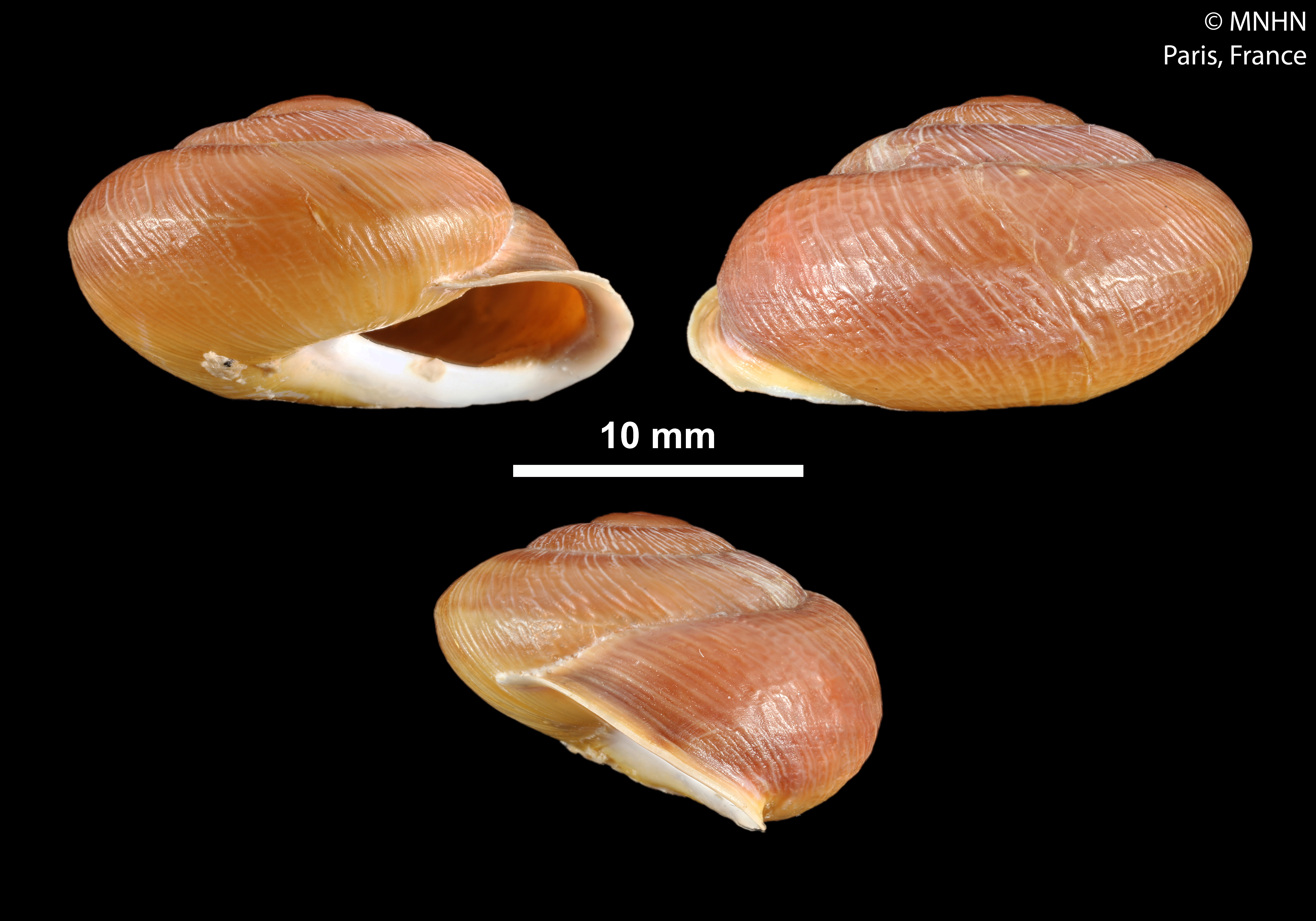 PRESERVED_SPECIMEN; Helix (Helicogena) modesta Férussac, 1822; Type status: SYNTYPE; Identified by: N/A; Individual count: 6; Event date: N/A